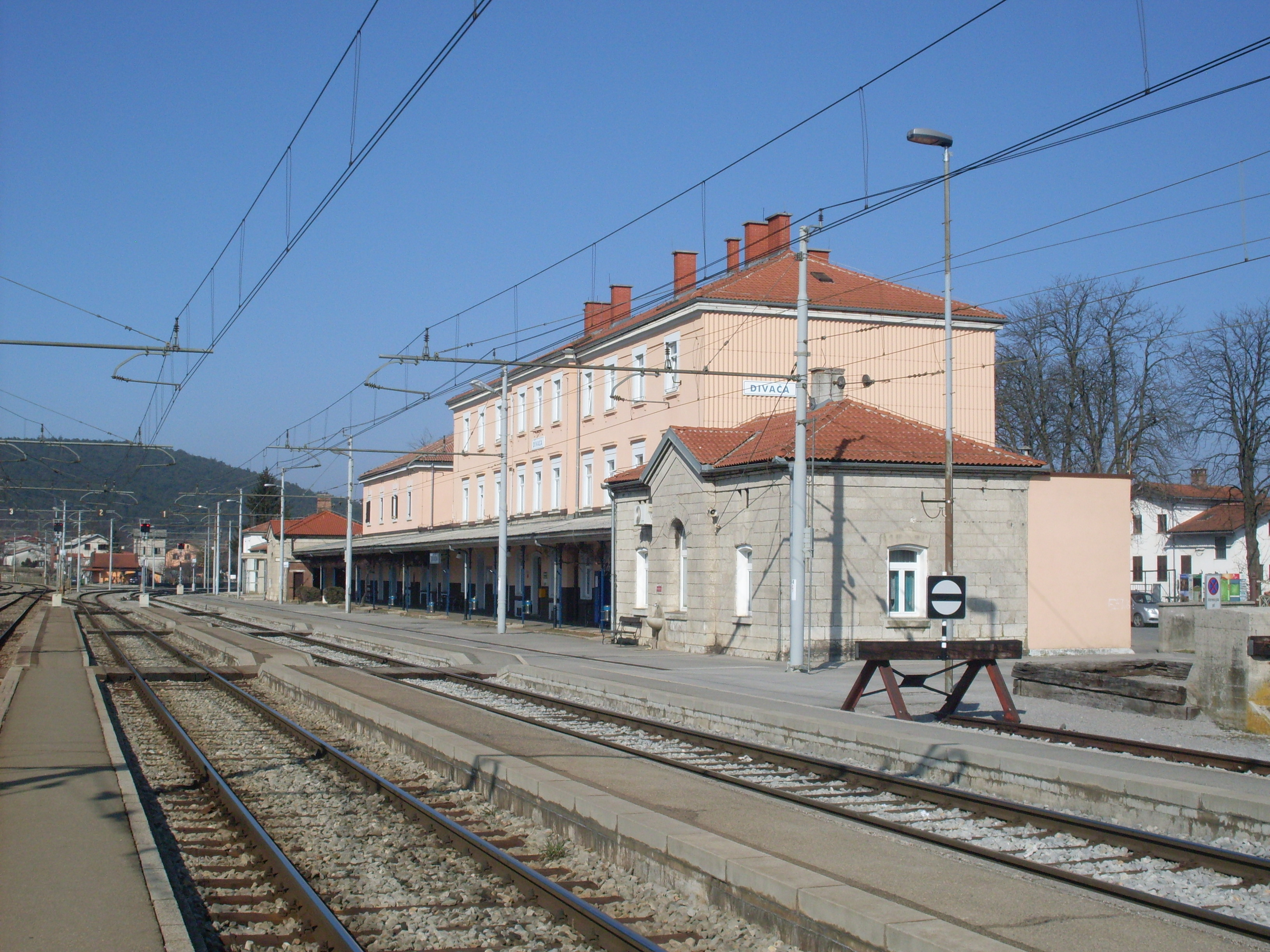 Train station in Divača, Slovenia